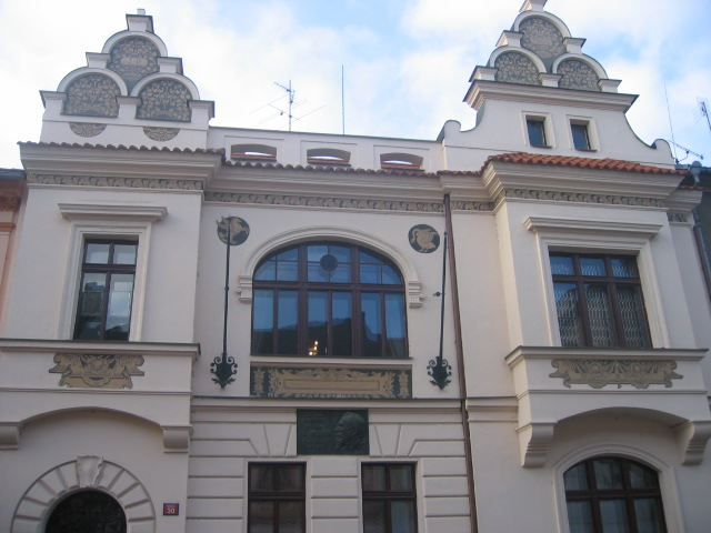 Neorennaissance building of the Museum of czech poet Adolf Heyduk in Písek (South bohemian region, Czech republic